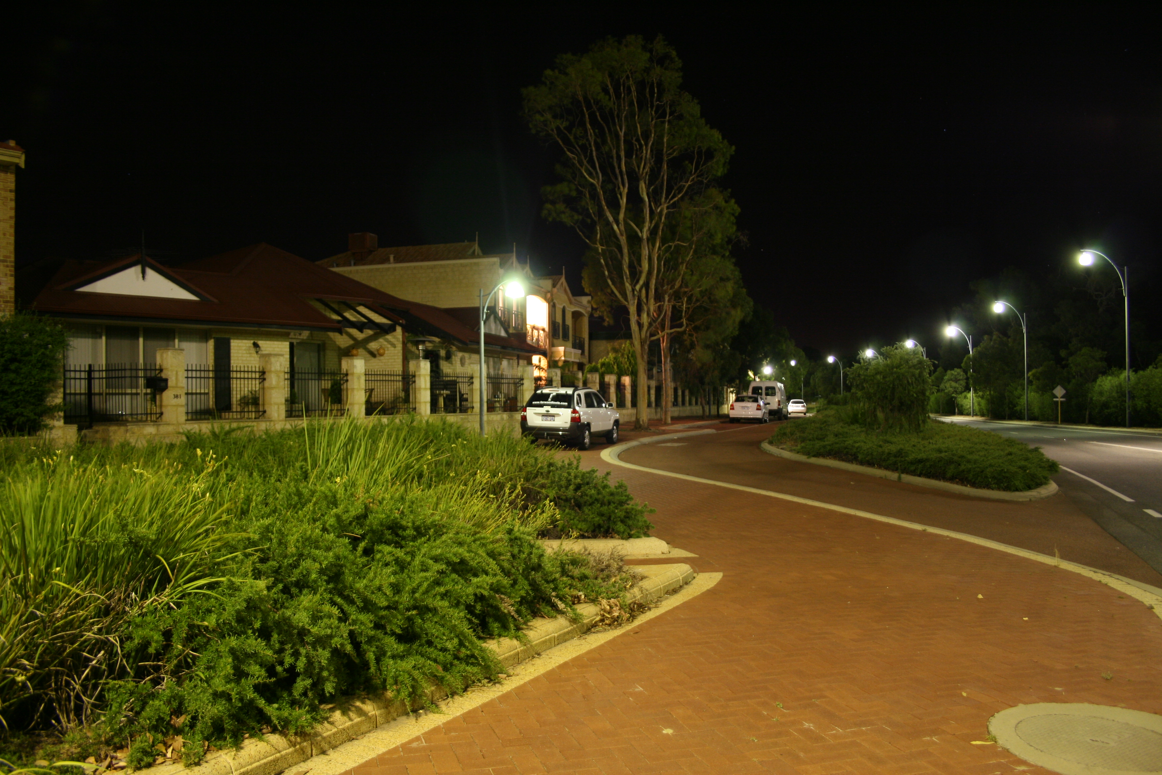 Photograph of the Joondalup City North area at night